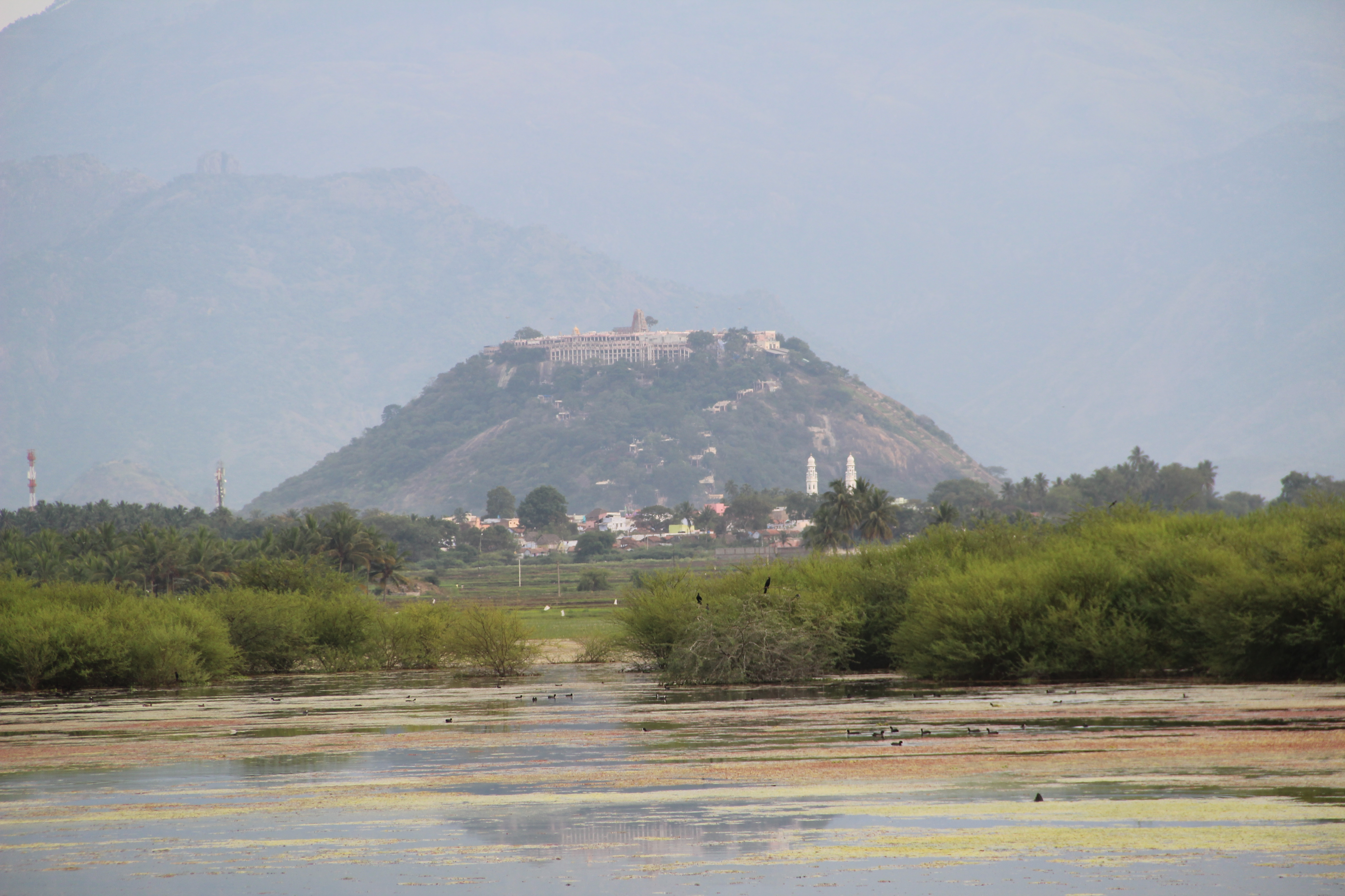 Kothaimangalam Wetland view with Palani hill temple